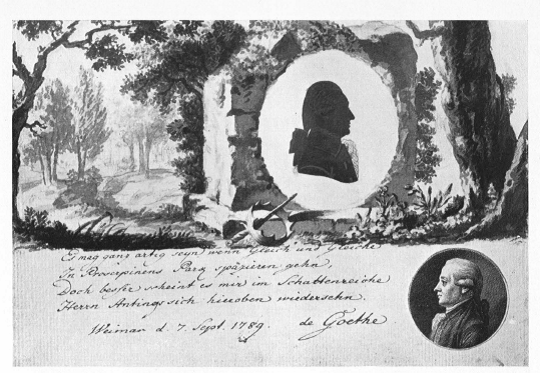 Silhouette and Inscription of Johann Wolfgang von Goethe in Johann Friedrich Anthing's Album, September 7, 1789 Es mag ganz artig seyn wenn Gleich' und Gleiche In Proserpinens Park spazieren gehn, Doch besser scheint es mir im Schattenreiche Herrn Antings sich hinoben wiedersehn.